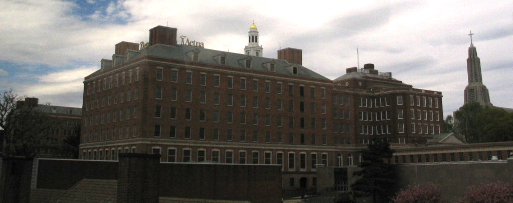 Aetna Headquarters in the Asylum Hill neighborhood.